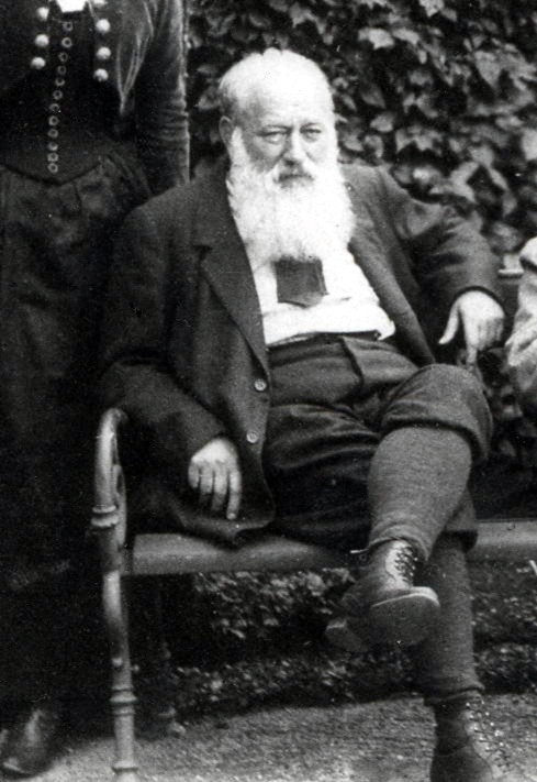 Foto Theodor Billroth